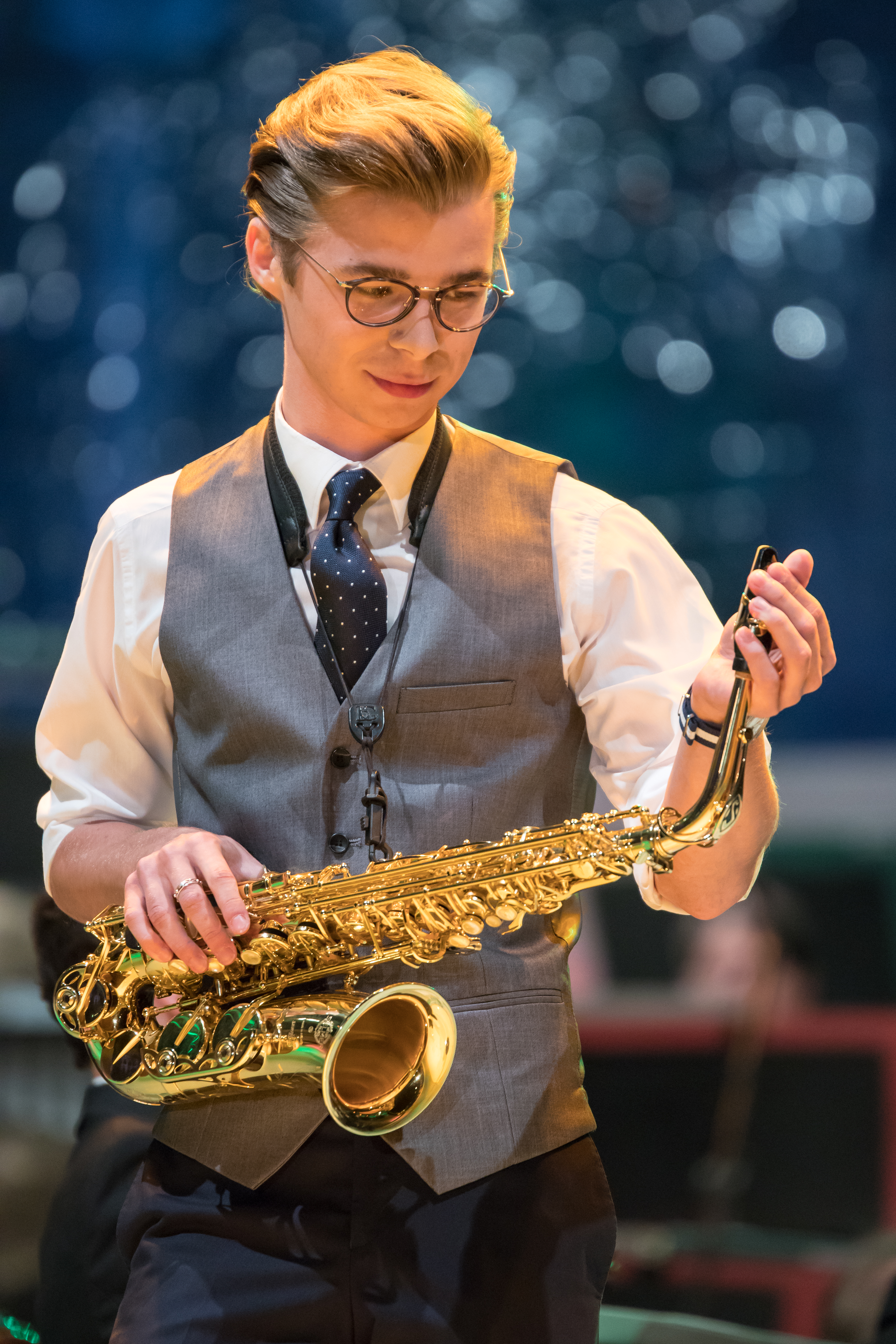 Eurovision Young Musicians 2016 in Cologne, Rehearsal on September 2nd 2016: Łukasz Dyczko